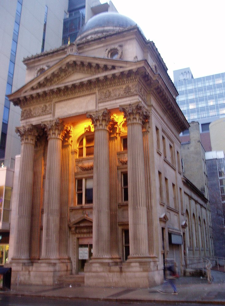 205 Yonge Street, in Toronto